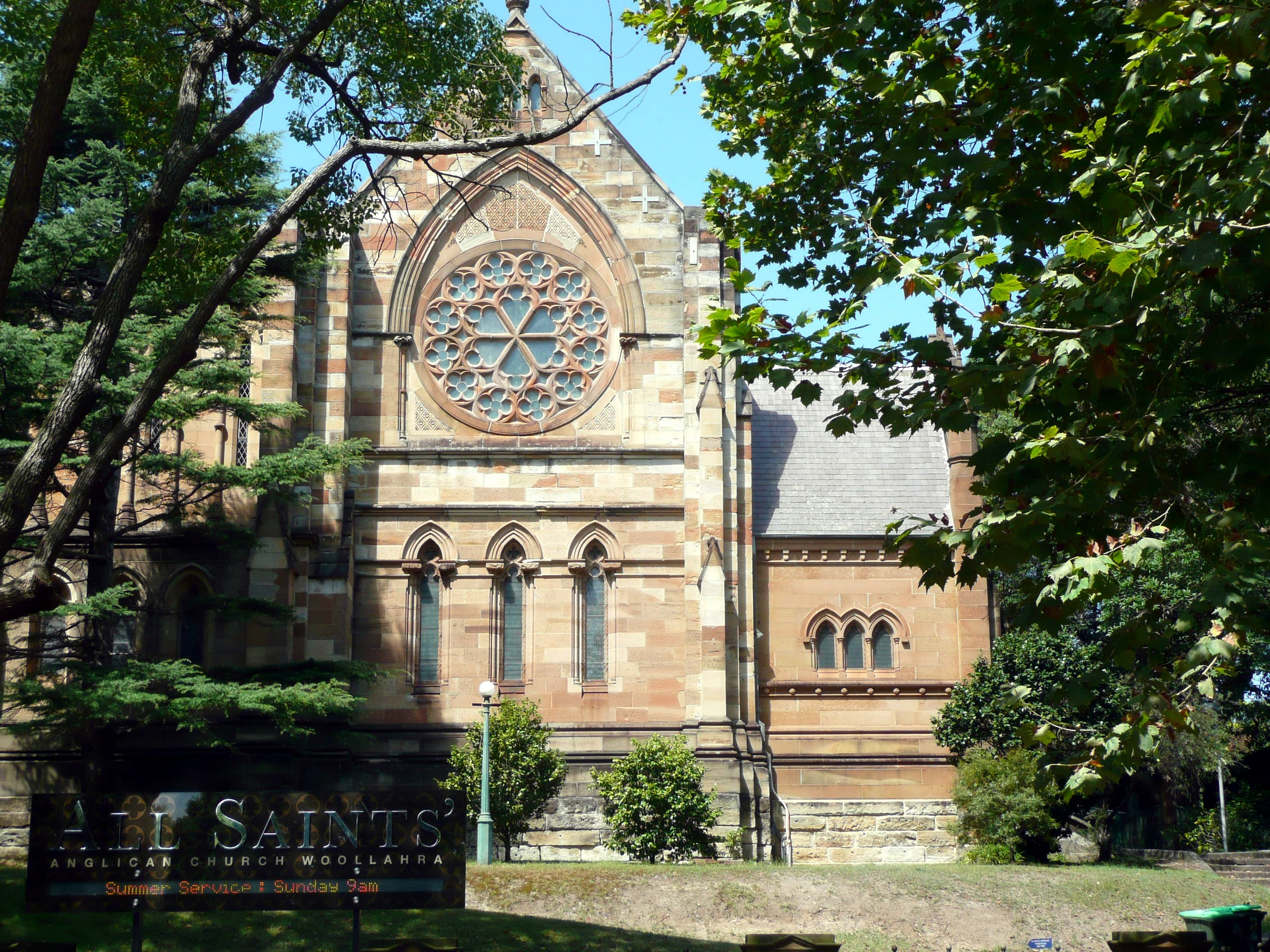 All Saints church, Woollahra, Sydney